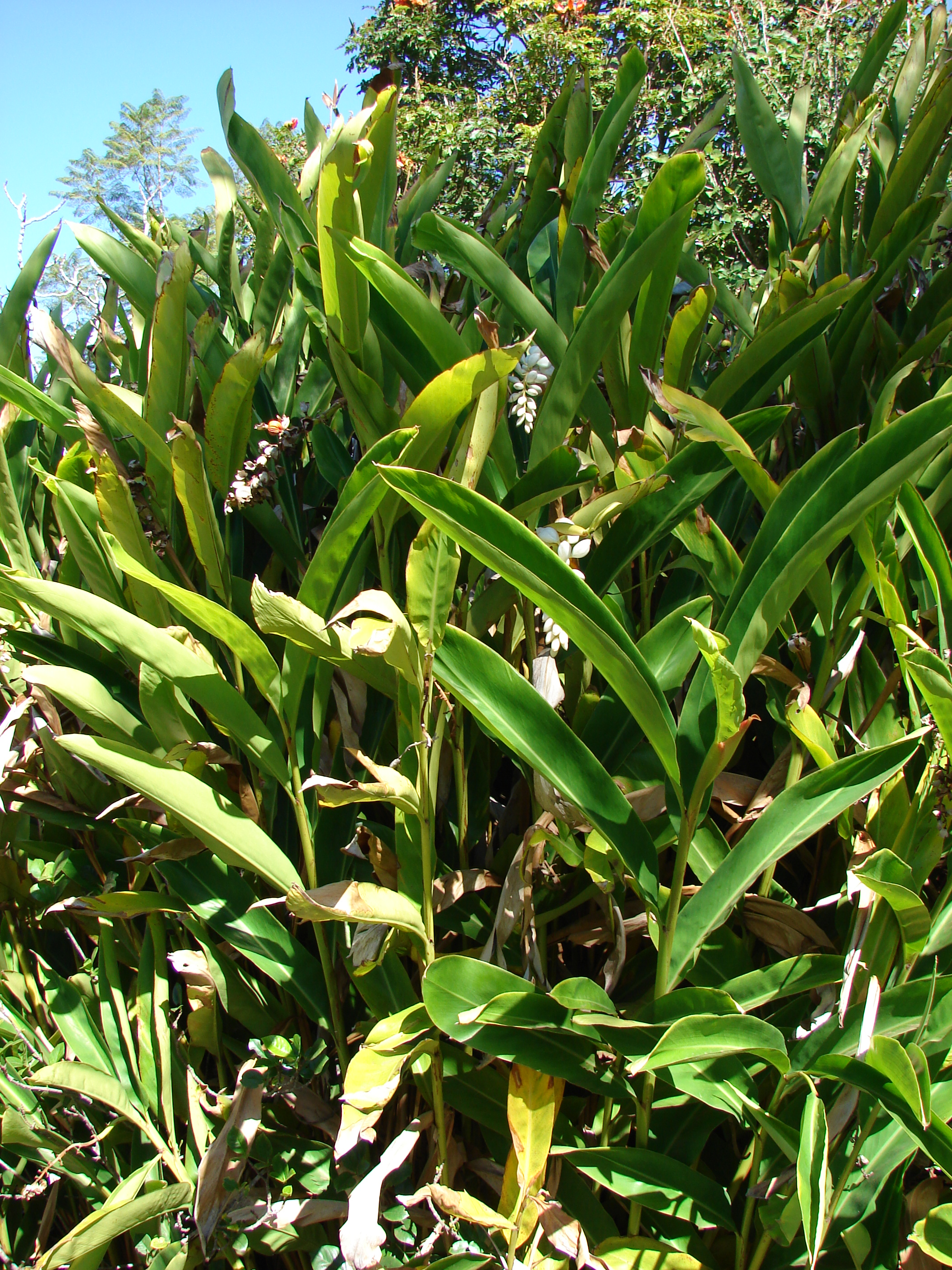 Alpinia zerumbet (habit). Location: Maui, Enchanting Floral Gardens of Kula